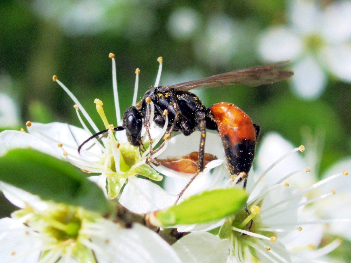 Name: Priocnemis sp. (female on Prunus spinosa). Family: Pompilidae. Location: Münster, NRW, Germany